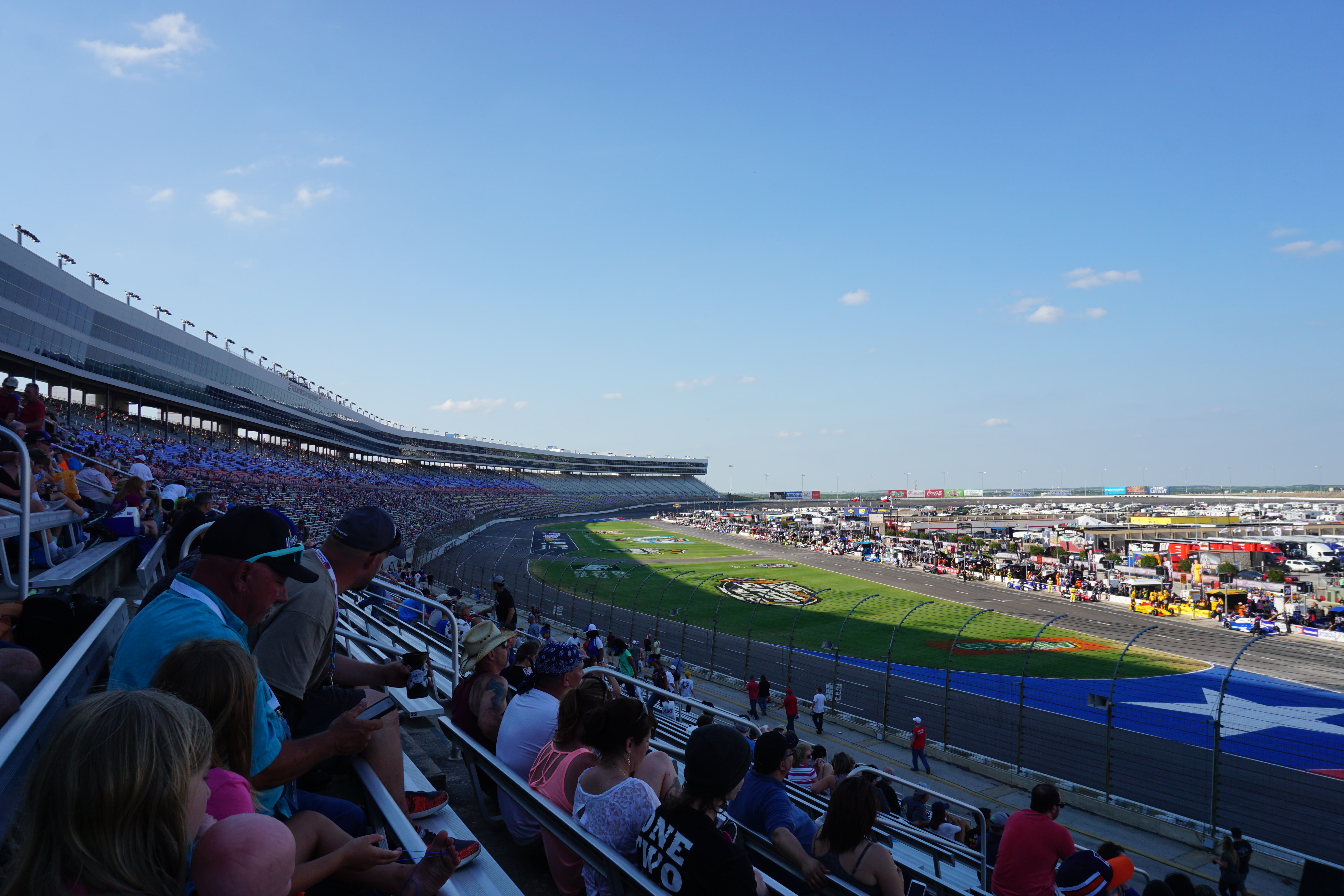 The track before the 2017 Rainguard Water Sealers 600 at Texas Motor Speedway in Fort Worth, Texas (United States).